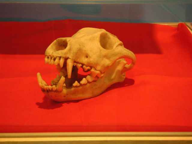 Honshū Wolf skull (Canis lupus hodophilax) in Ueno Zoo, Japan.